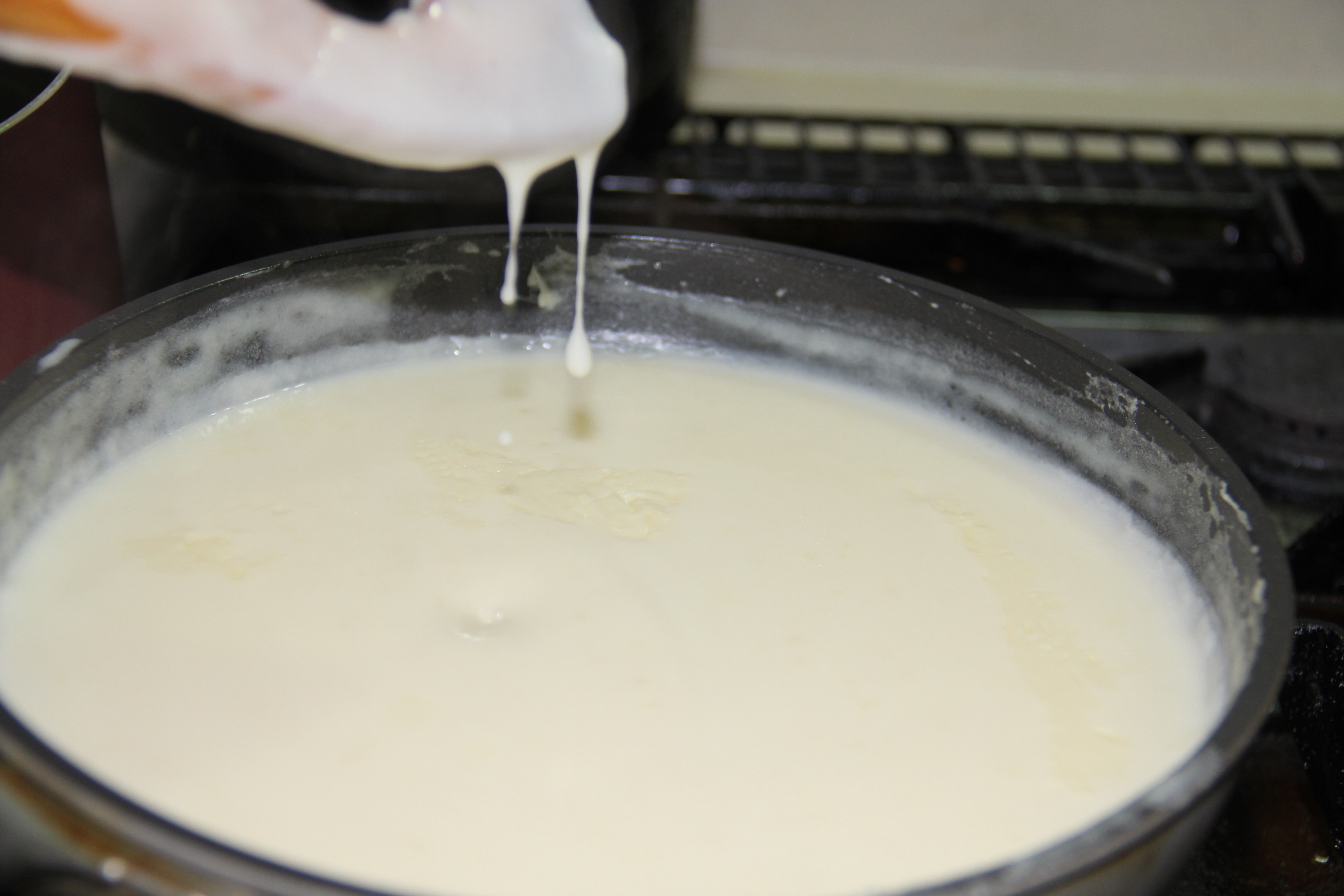 Making White sauce